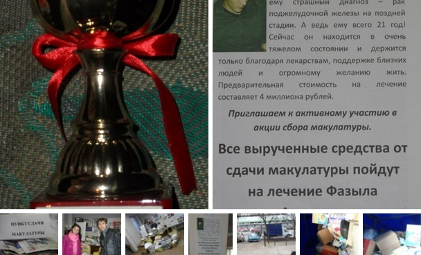 Сбор макулатуры и спасение жизни